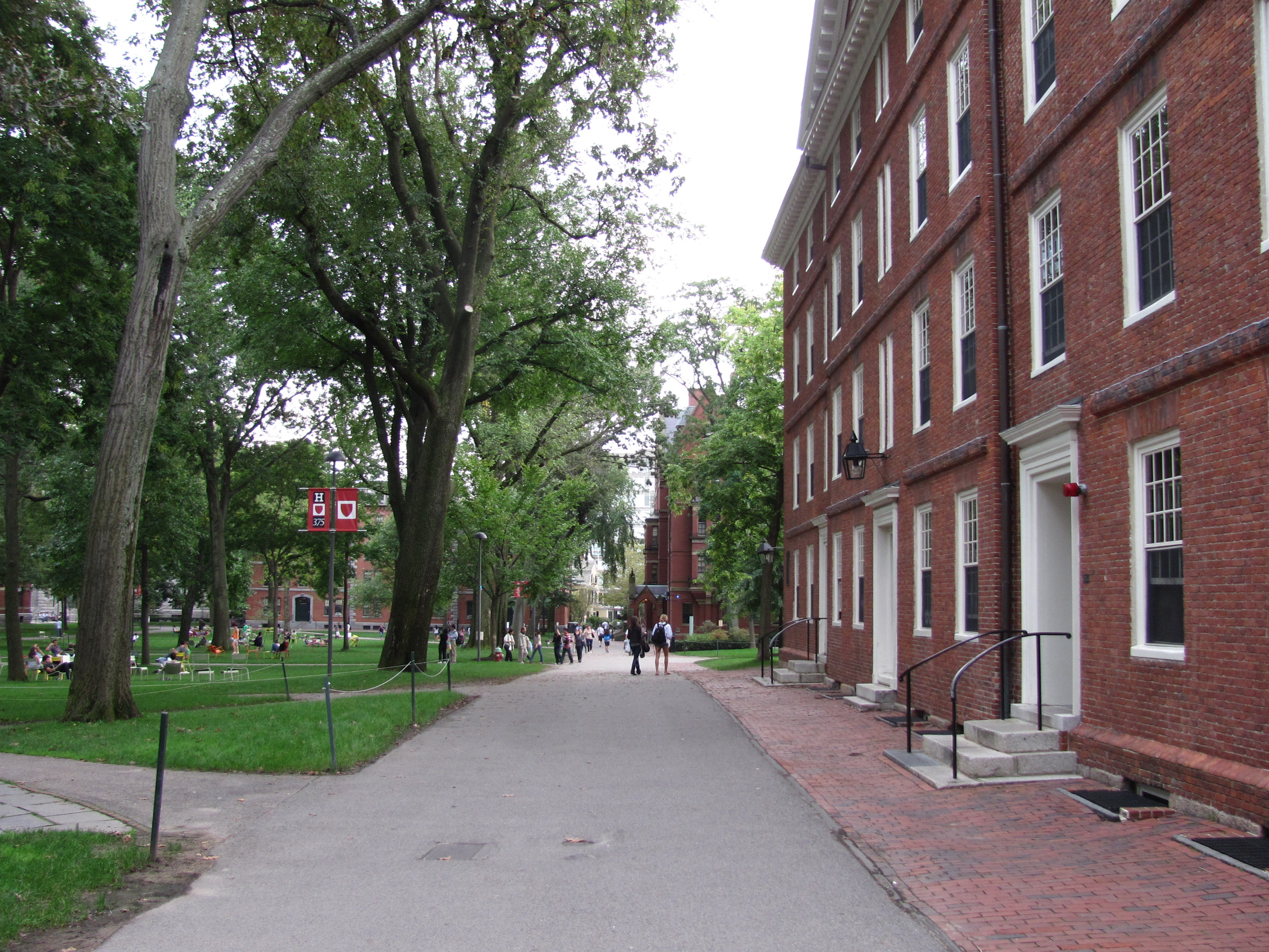 Harvard Yard, Harvard University, Cambridge Massachusetts